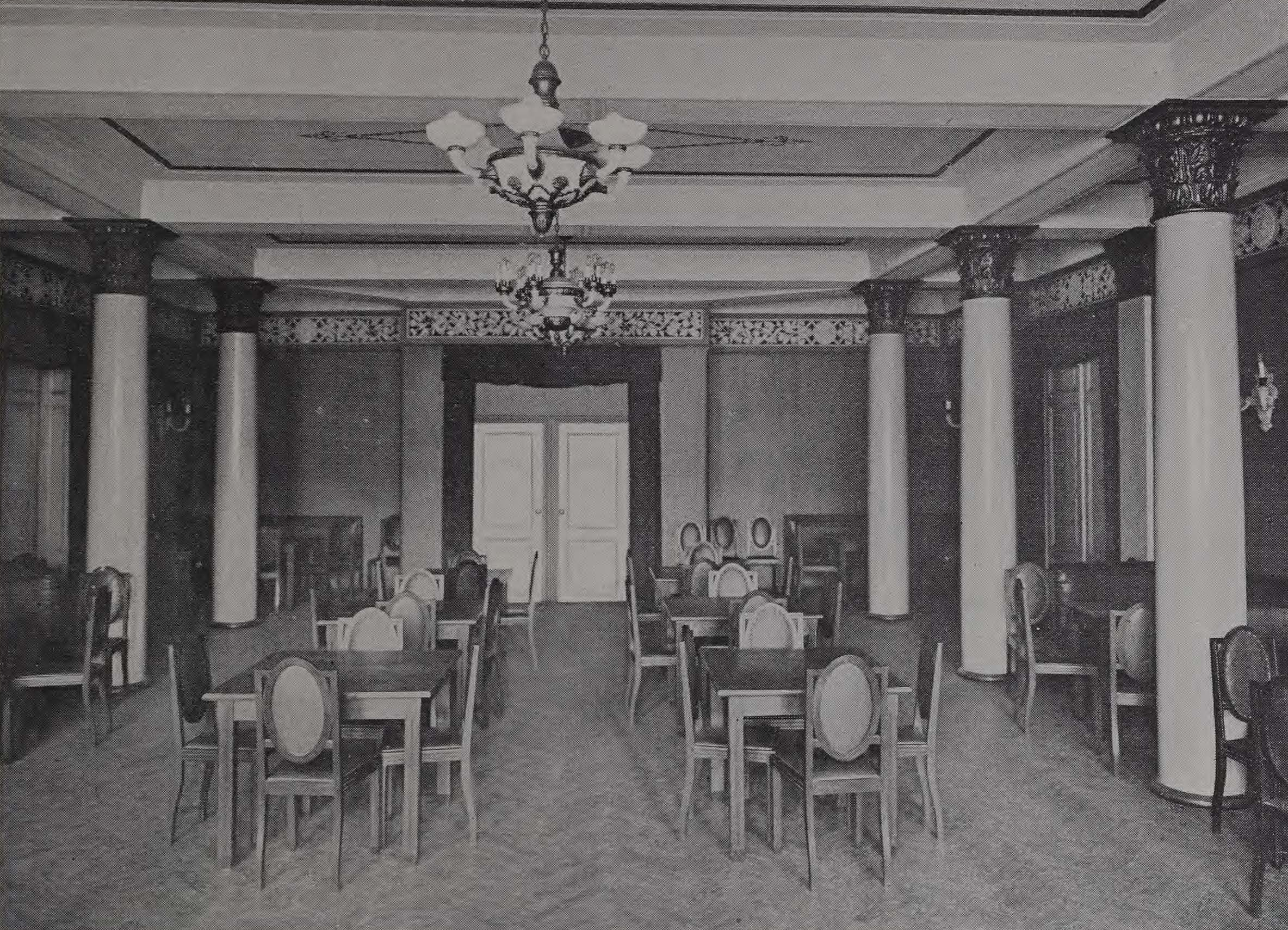 The dining hall of the Jewish Club (Skolas str. 6) in Riga, 1926. From the Jahrbuch fuer Bildende Kunst in der Ostseeprovinzen, 8.Jg.